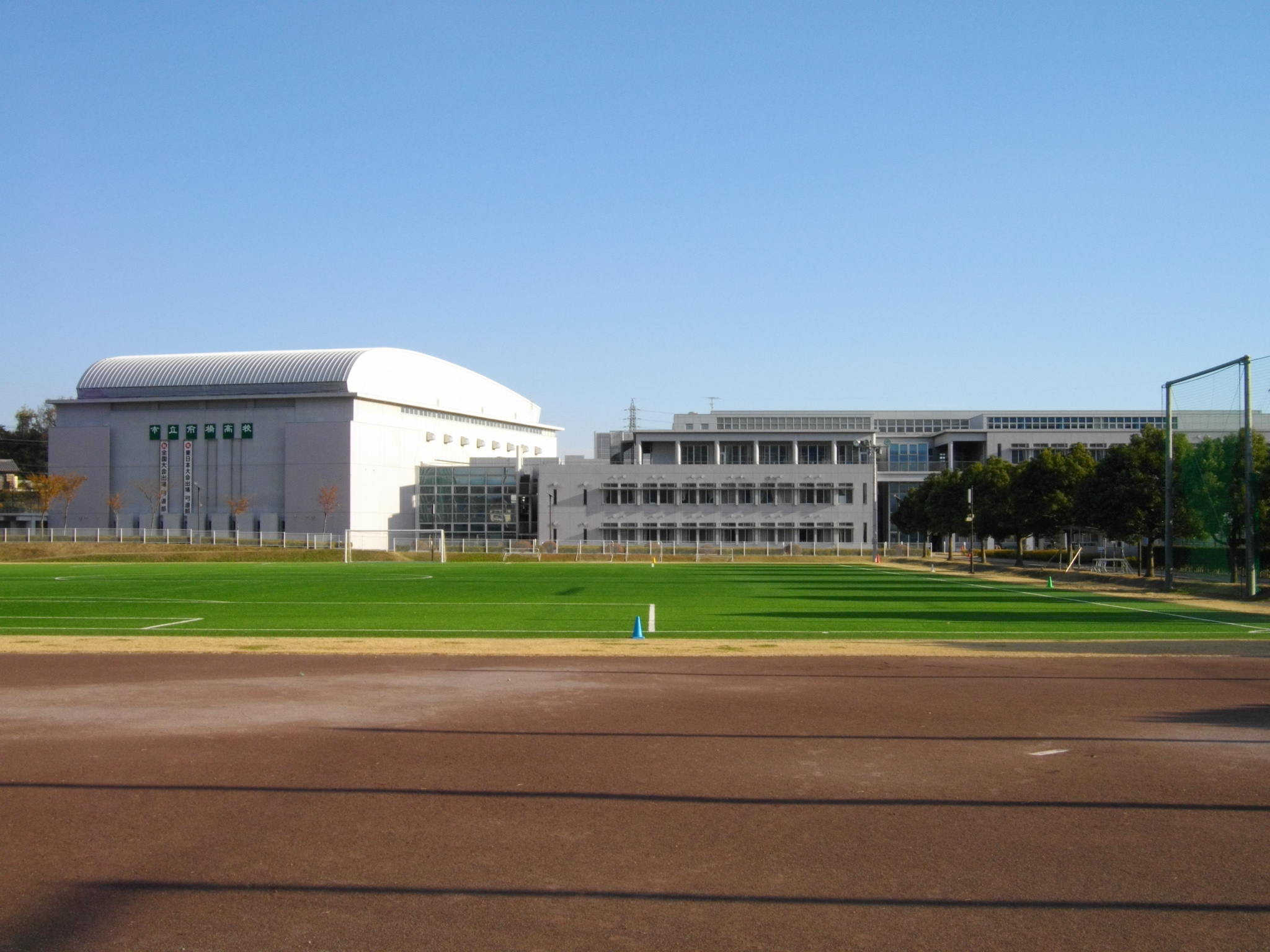 Maebashi Municipal High School